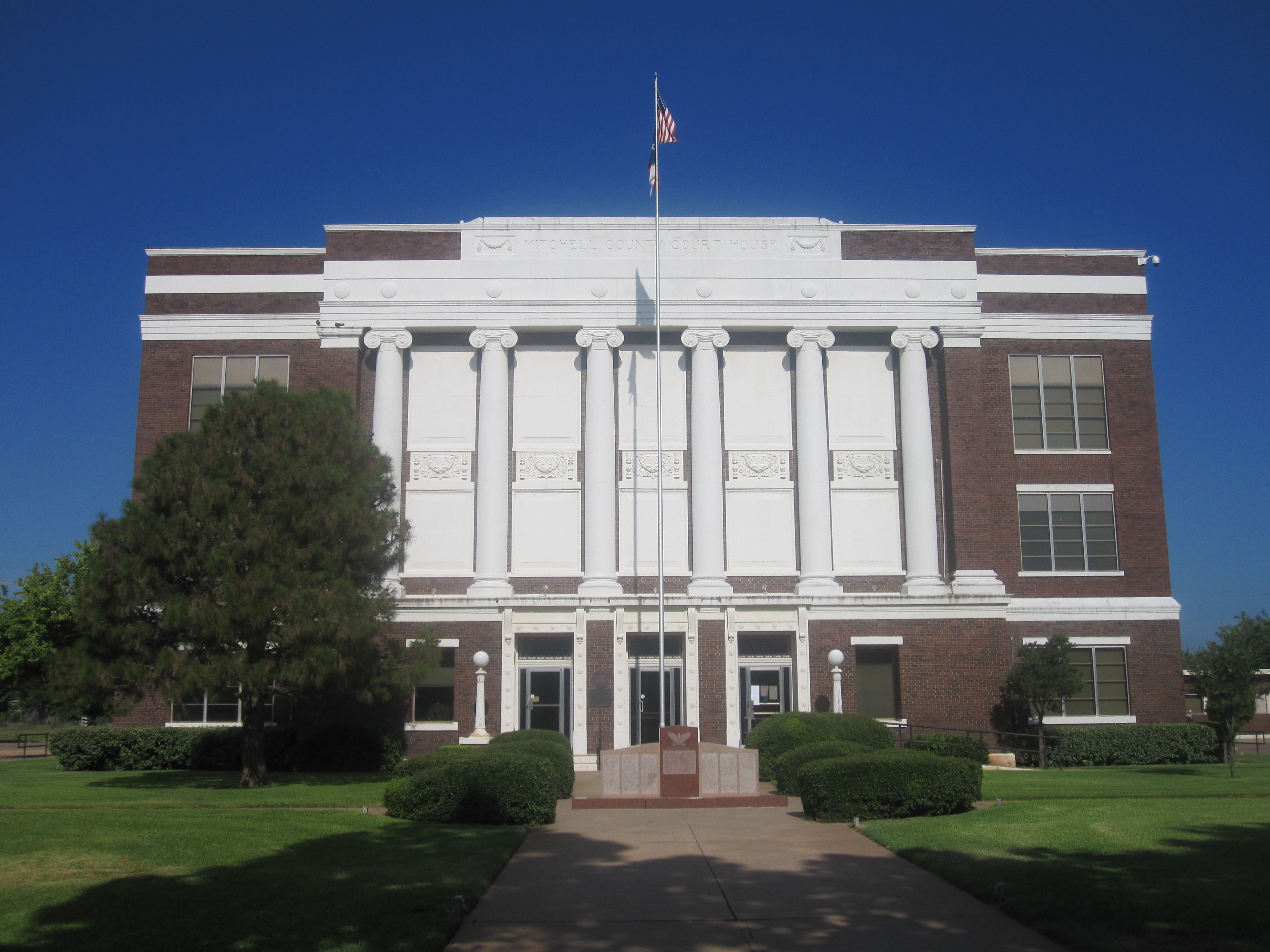 I took photo in Colorado City, TX, with Canon camera.